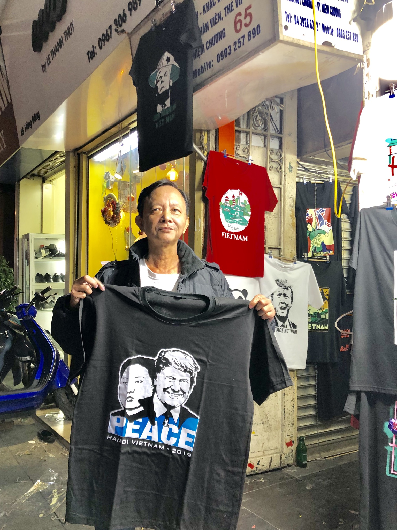 Hanoi man Truong Thanh Duc with his printed T-shirt of Donald Trump and Kim Jung-un at Preparations for the 2019 North Korea–United States summitTiếng Việt: Người Hà Nội với áo phông in hình tổng thống Hoa Kỳ Donald Trump và Chủ tịch Bắc Triều Tiên chào mừng hội nghị thượng đỉnh hai nước tại Việt Nam năm 2019